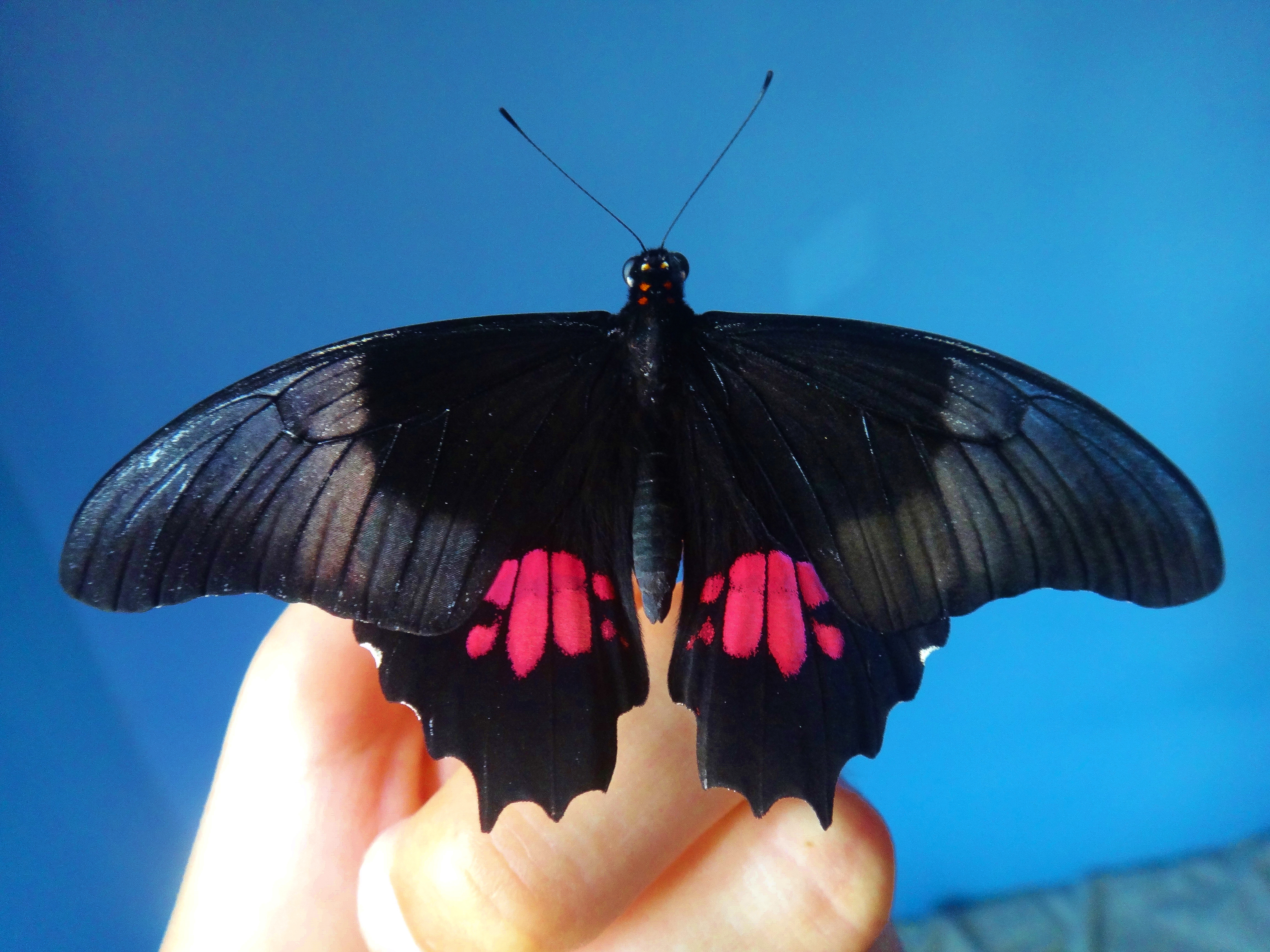 This photo shows the Red-spotted Swallowtail (Papilio anchisiades).